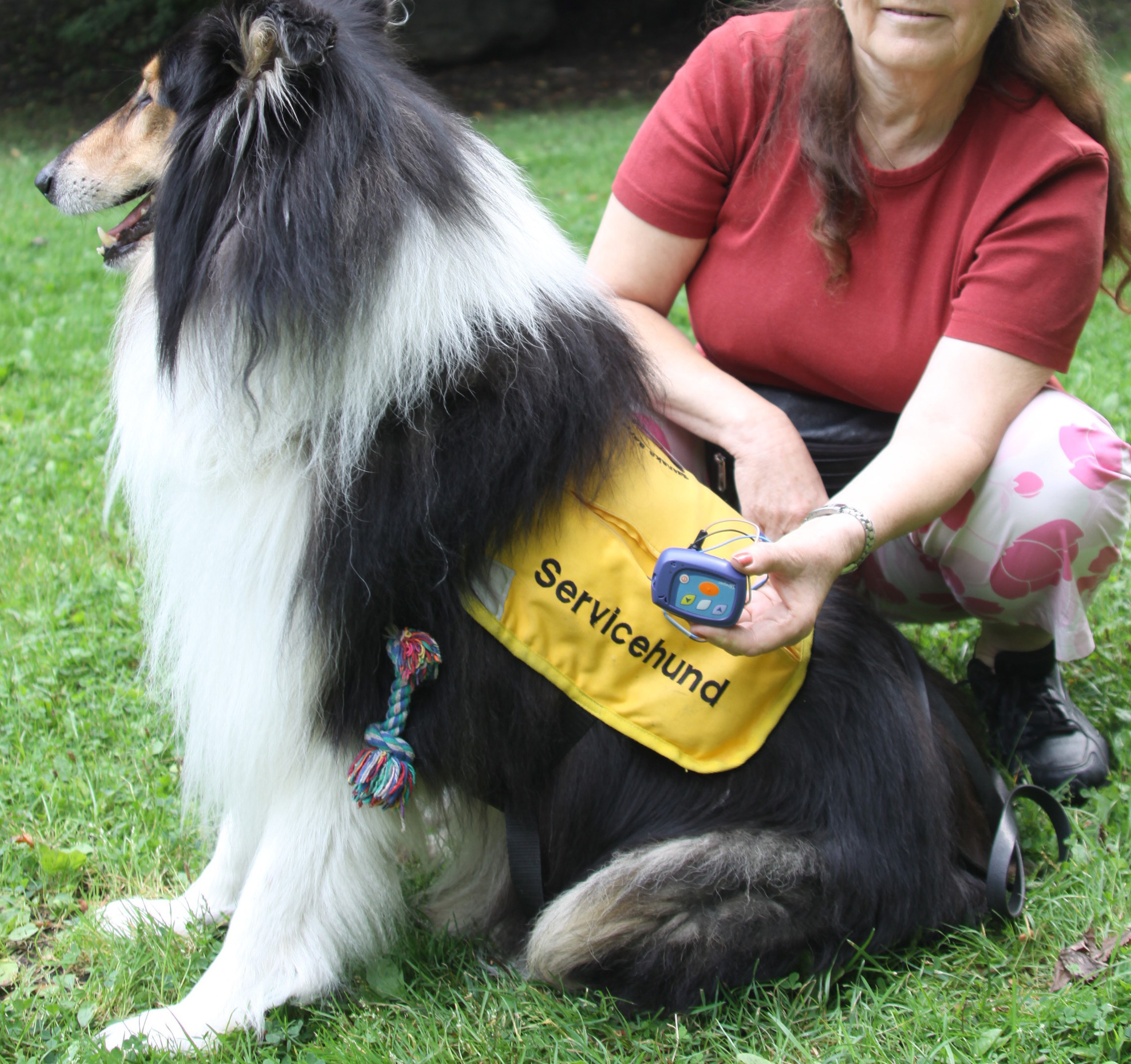 Epi-dog showing the alarm that is connected directly to the Medical Services.